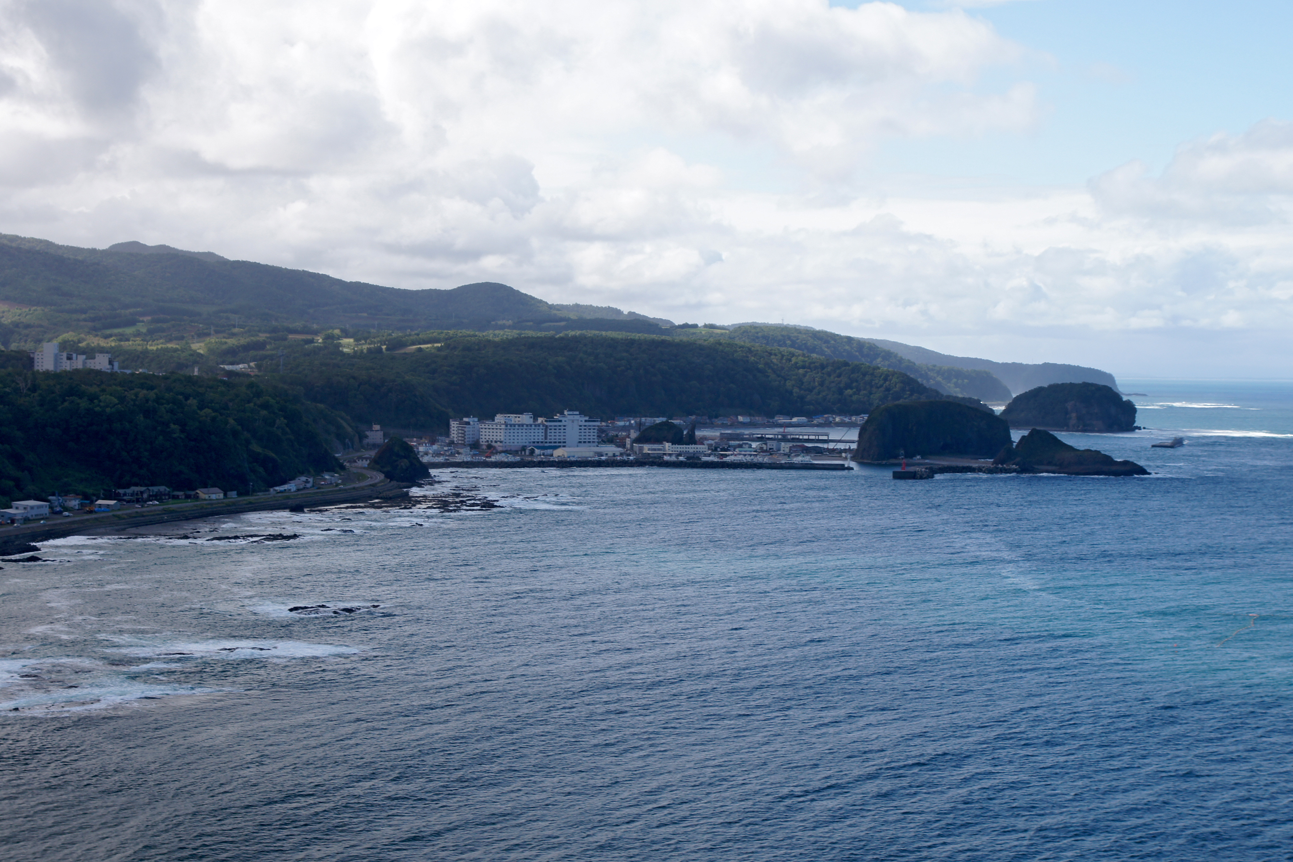 Utoro view from Cape Puyuni in Shari, Hokkaido prefecture, Japan